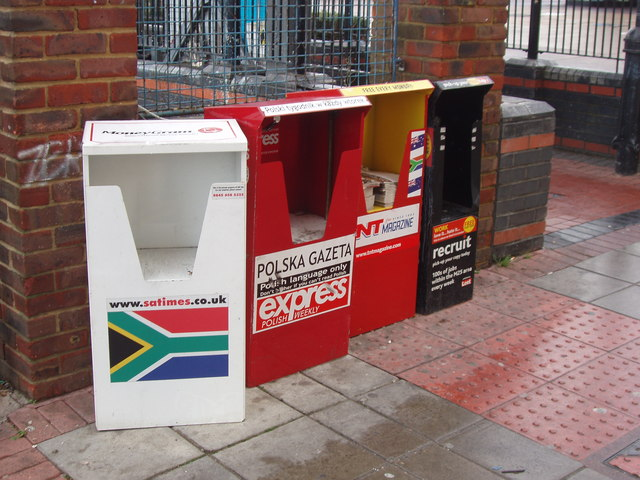 London papers for South Africa, Poland, Australia, New Zealand These bins outside North Acton tube station are for distribution of free newspapers for people from South Africa, Poland, Australia and New Zealand living in London - with news about events in those countries, and information and advertisements about jobs in London.